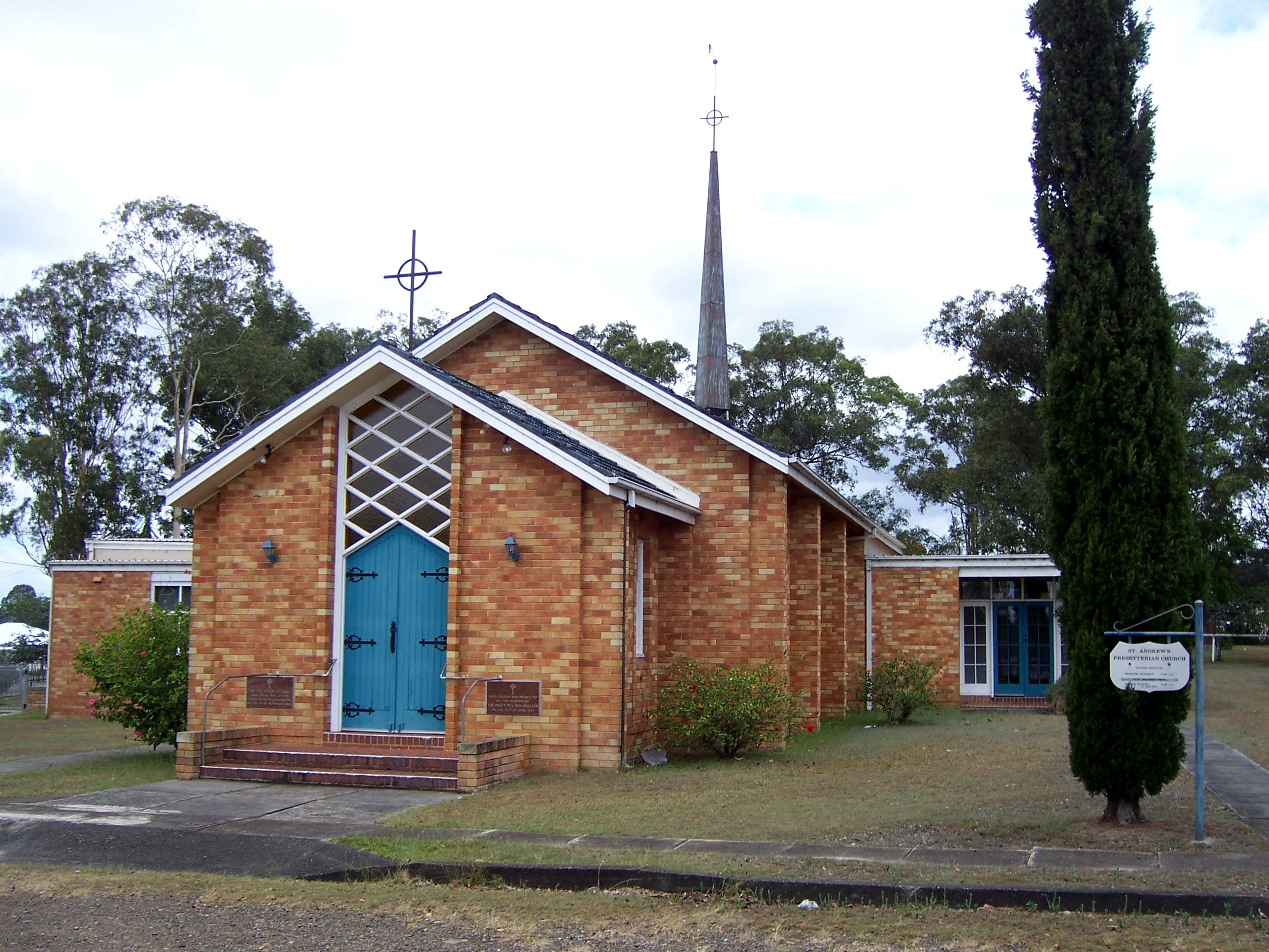 St Andrew's Presbyterian Church, Wingham, Wingham, New South Wales. 1970's yellow/cream/red brick church building.